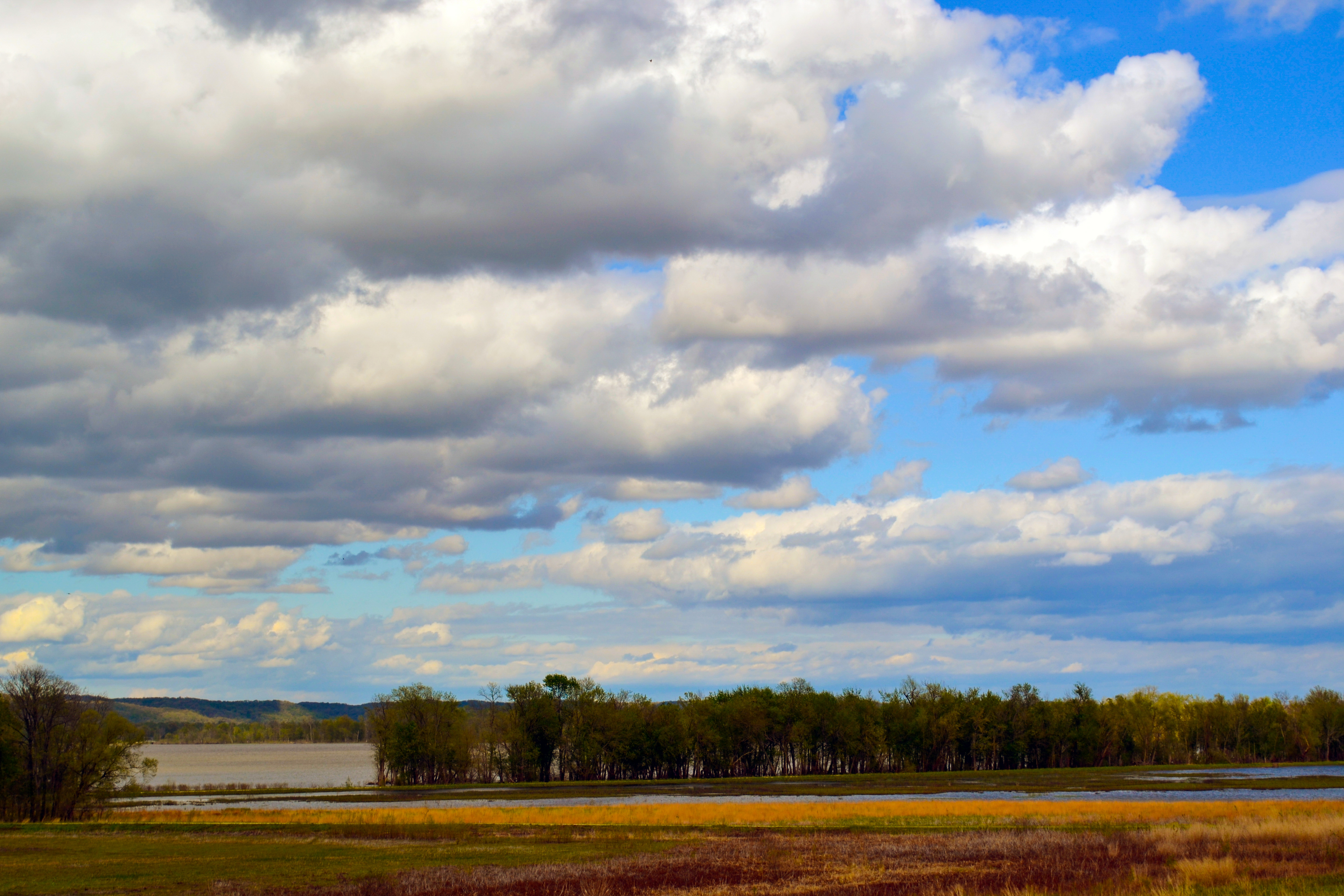 Photo by Tina Shaw/USFWS.